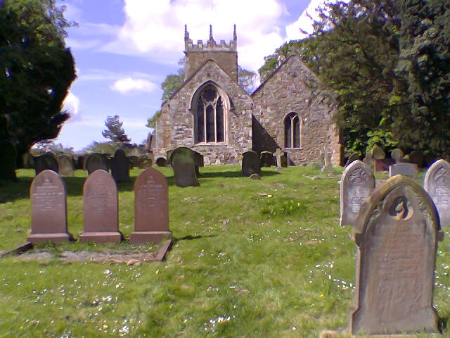 Author: Bob Emm